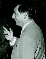 Photograph of the mathematician Erich Lamprecht.